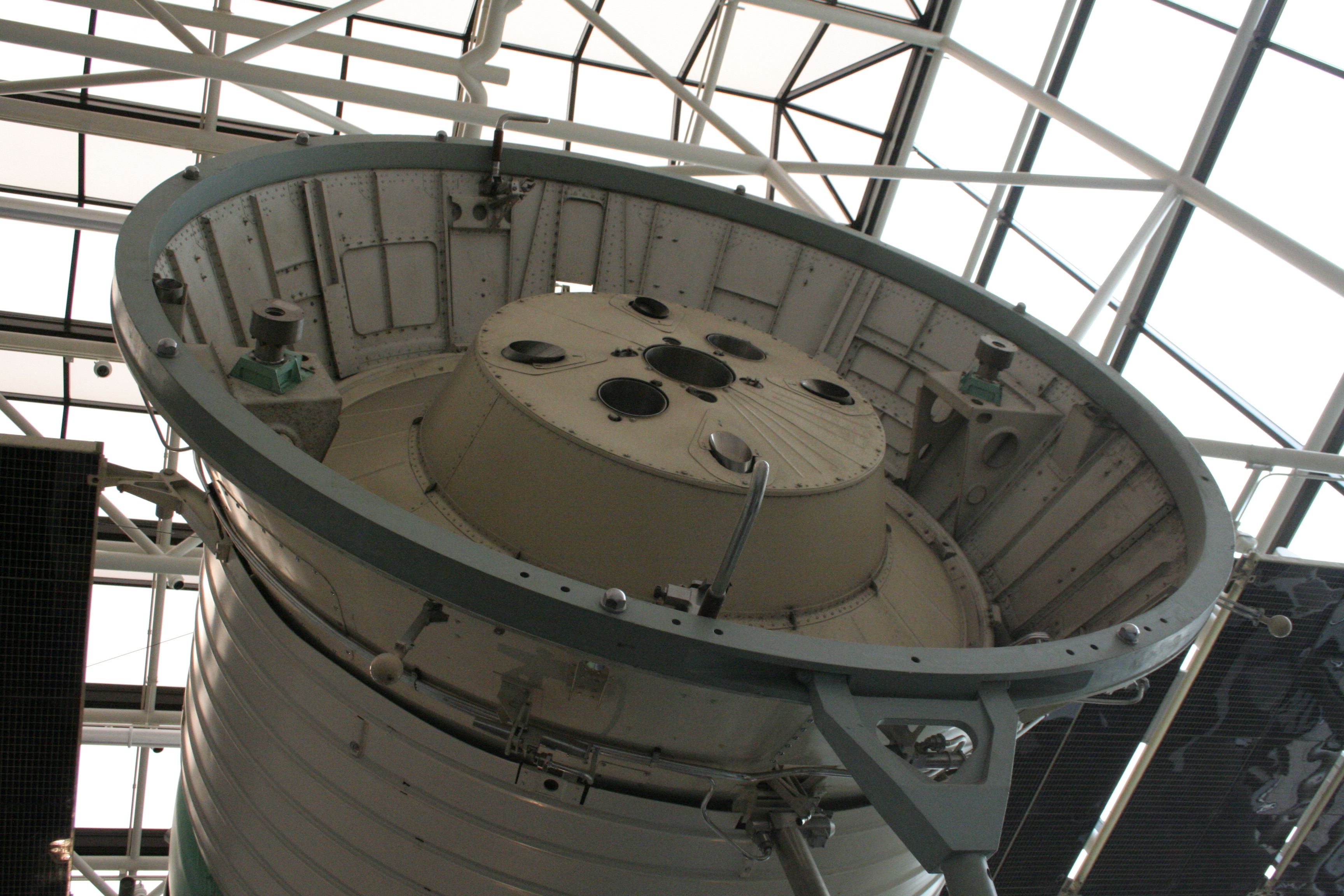 Soyuz 19 Mockup SKD main engines on the Soyuz on display at the National Air and Space Museum in Washington D.C.